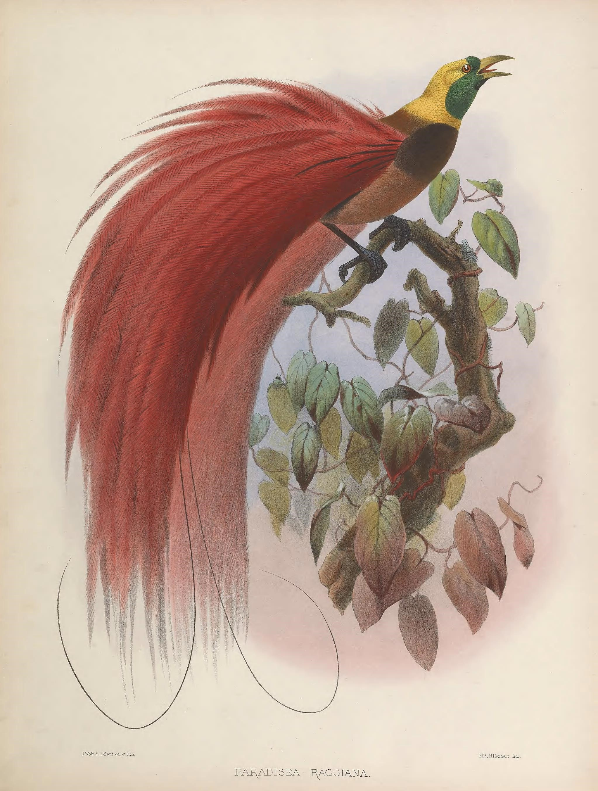 Drawing of 1873